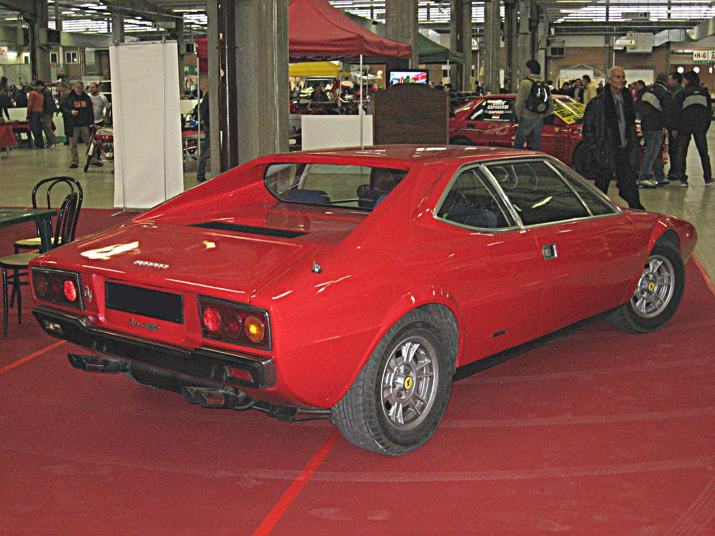 Subject:Ferrari Dino 308 GT4 Author:Luc106 Date:November 24th, 2007 Event:Markè-Retrò 2007 Place/country:Cesena (FC), Italy I release all rights in the public domain.